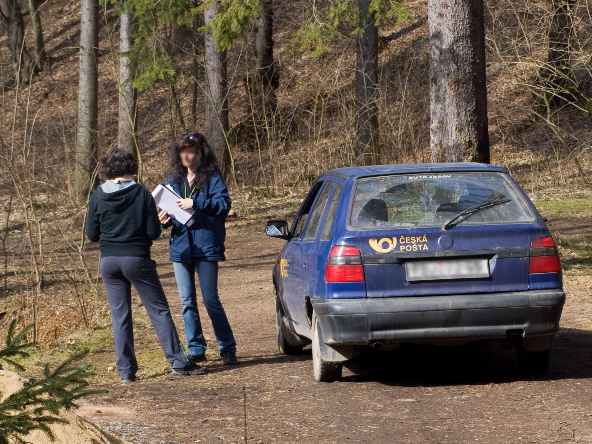 Postwoman gives papers for census to villager, Czech Republic